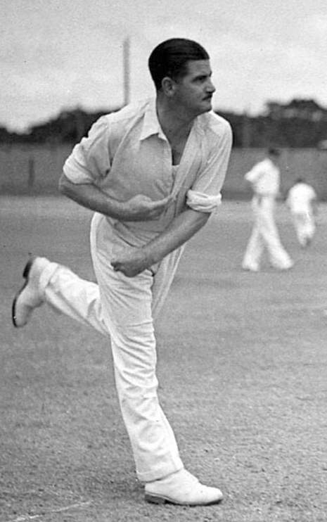 Chuck Fleetwood-Smith practicing